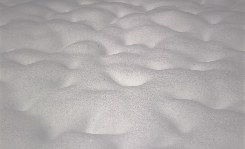 Snowy ground in Japan. Photo taken with a hasselblad camara.